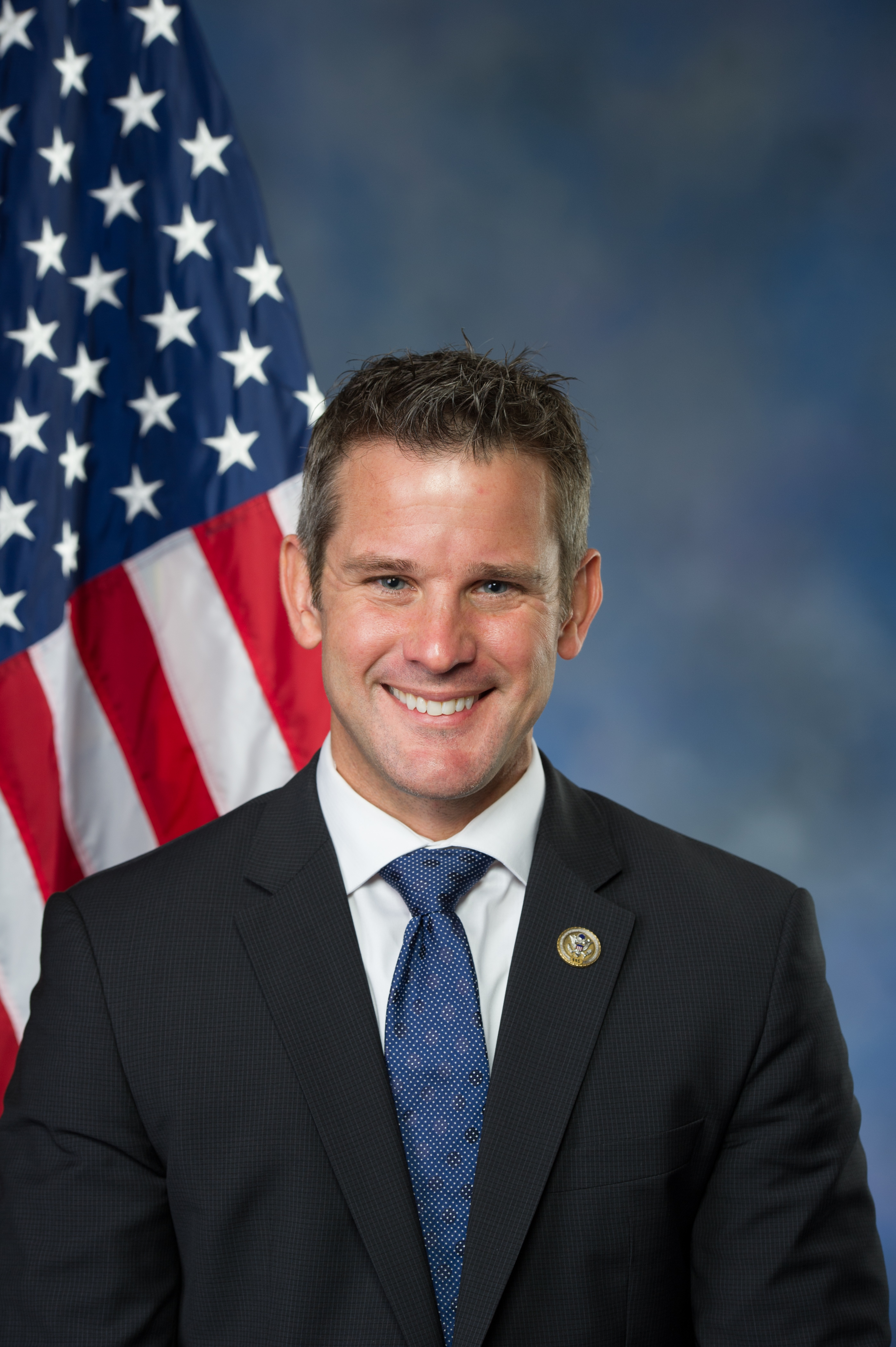 Adam Kinzinger, 2017